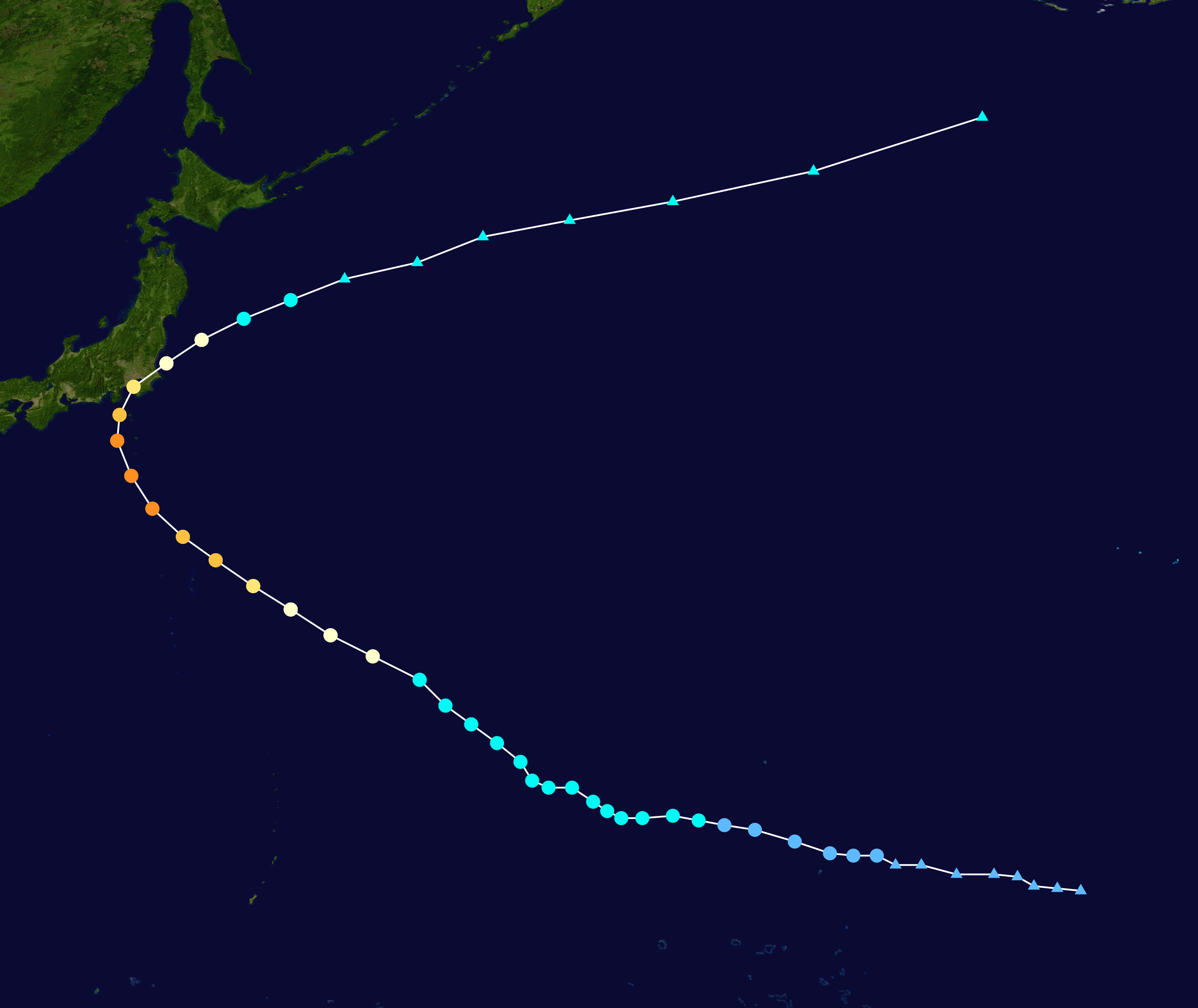 Track map of Typhoon Faxai of the 2019 Pacific typhoon season. The points show the location of the storm at 6-hour intervals. The colour represents the storm's maximum sustained wind speeds as classified in the Saffir–Simpson scale (see below), and the shape of the data points represent the nature of the storm, according to the legend below. Saffir–Simpson scale Tropical depression≤38 mph≤62 km/h Category 3111–129 mph178–208 km/h Tropical storm39–73 mph63–118 km/h Category 4130–156 mph209–251 km/h Category 174–95 mph119–153 km/h Category 5≥157 mph≥252 km/h Category 296–110 mph154–177 km/h Unknown Storm type Tropical cyclone Subtropical cyclone Extratropical cyclone / Remnant low / Tropical disturbance / Monsoon depression